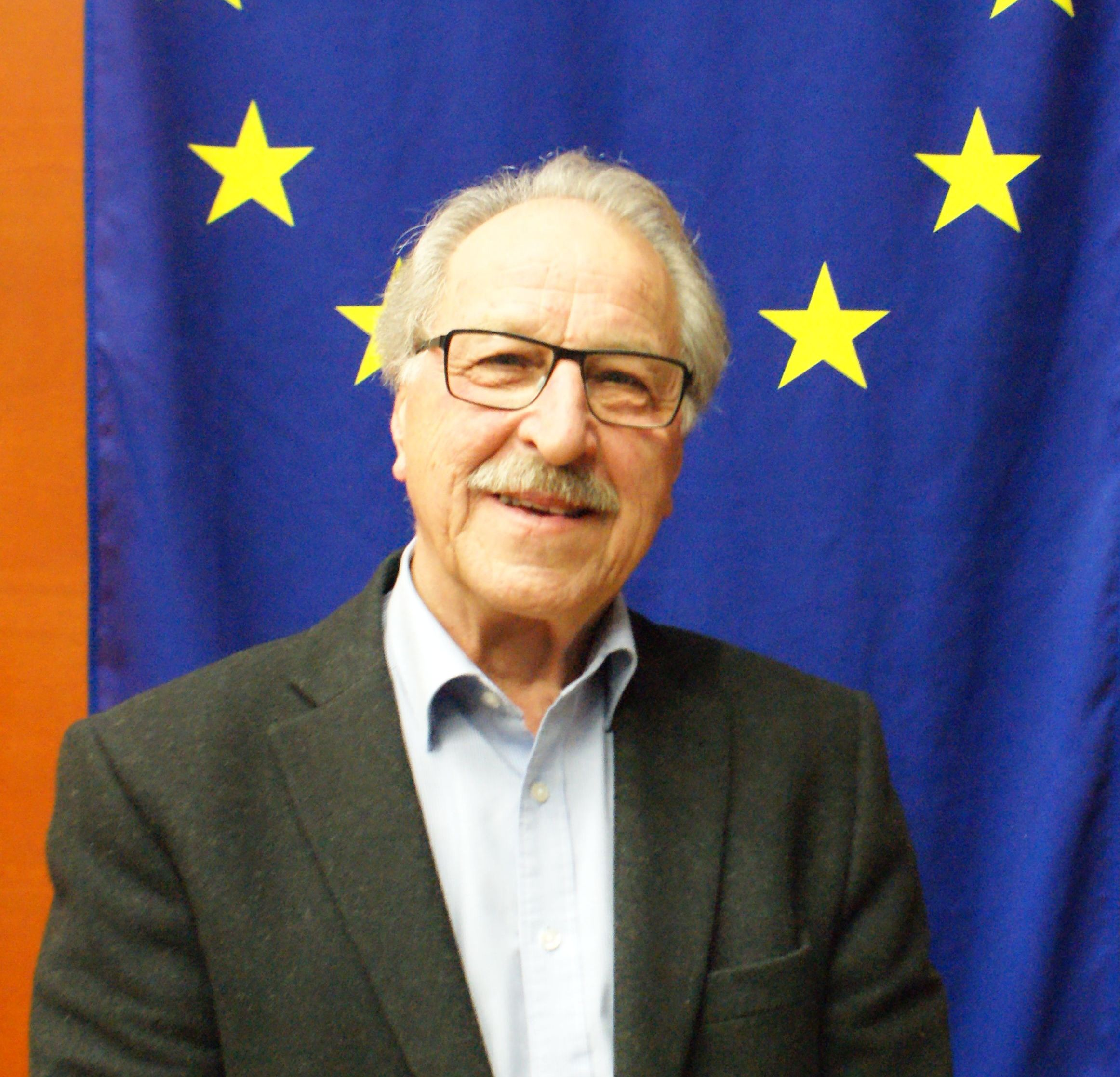 Former mayor of Wolfurt and member of the Economic and Social Committee, Erwin Mohr.